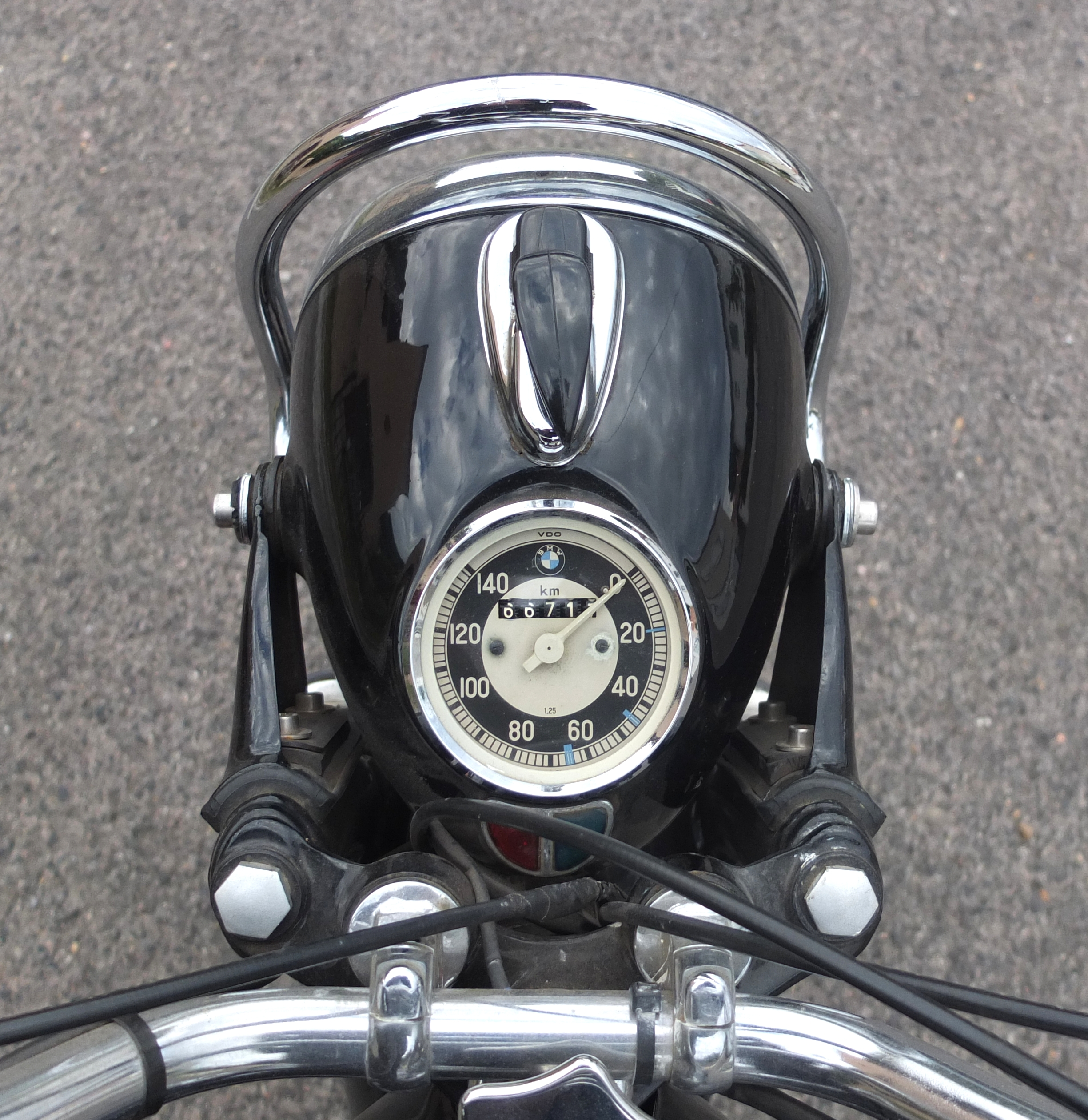 Speedometer of a BMW R26, built 1960